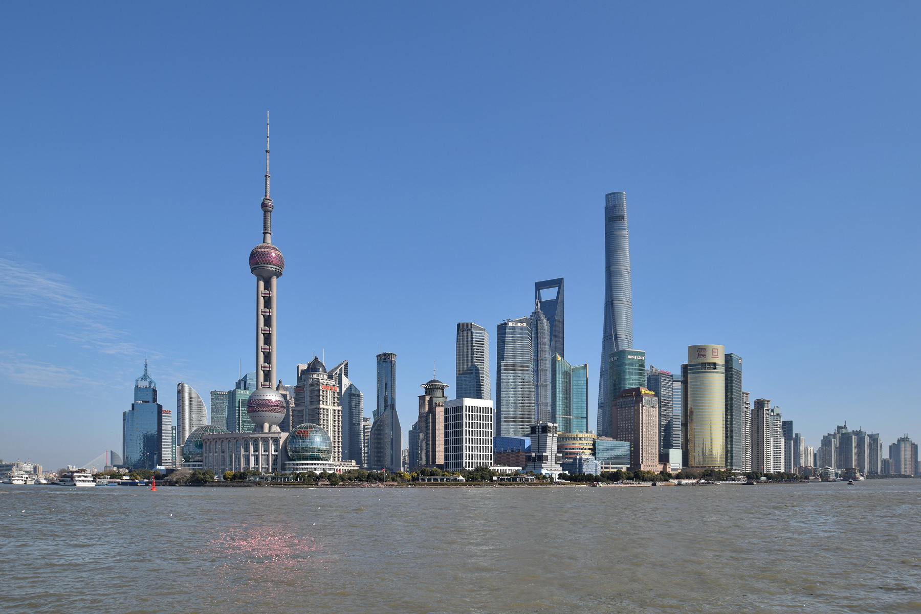 Skyline of Lujiazui, Pudong New Area, Shanghai (2016)